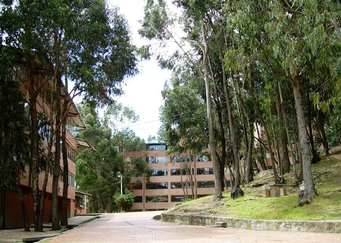 UAN Circunvalar